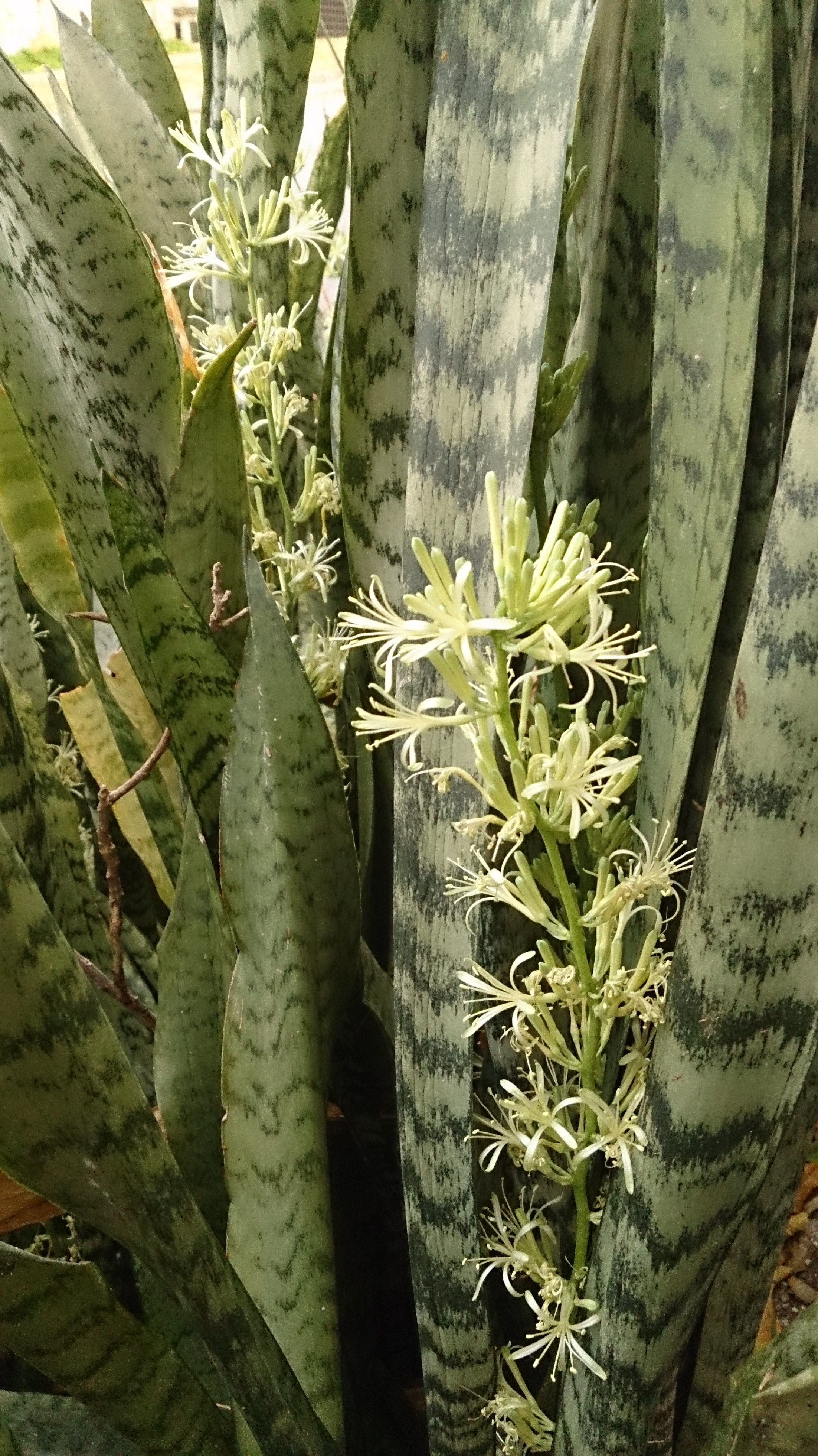 Sansevieria trifasciata (black coral) with flowers